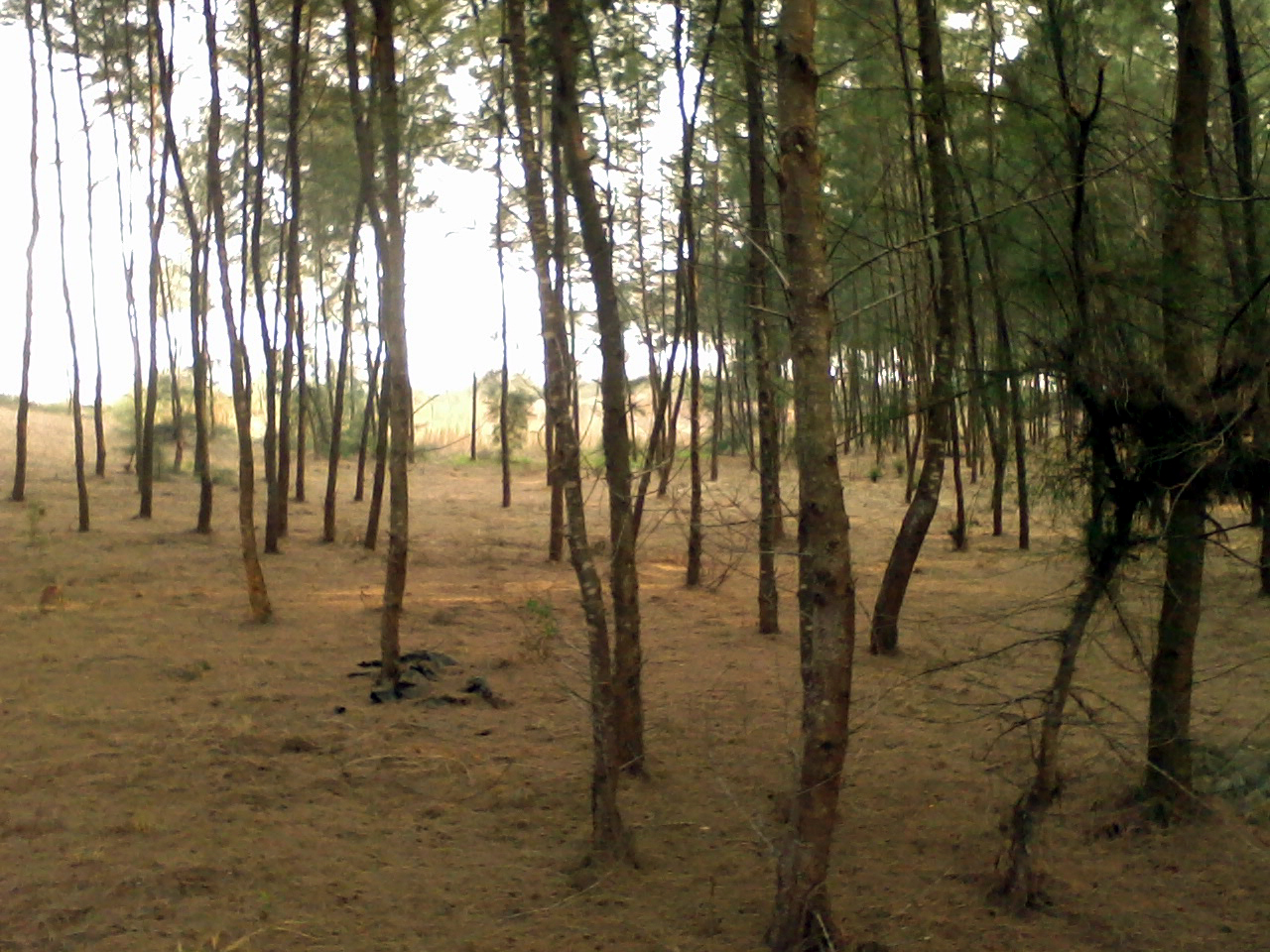 (Casuarina equisetifolia) at Chintapalli beach, Vizianagaram district